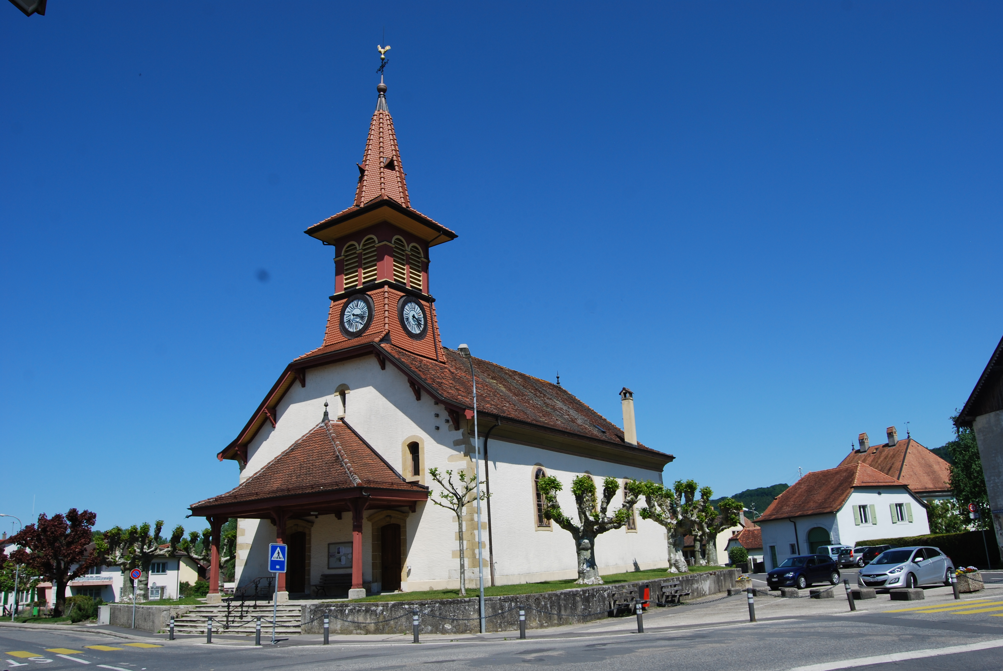 Church of Yvonand, canton of Vaud, Switzerland